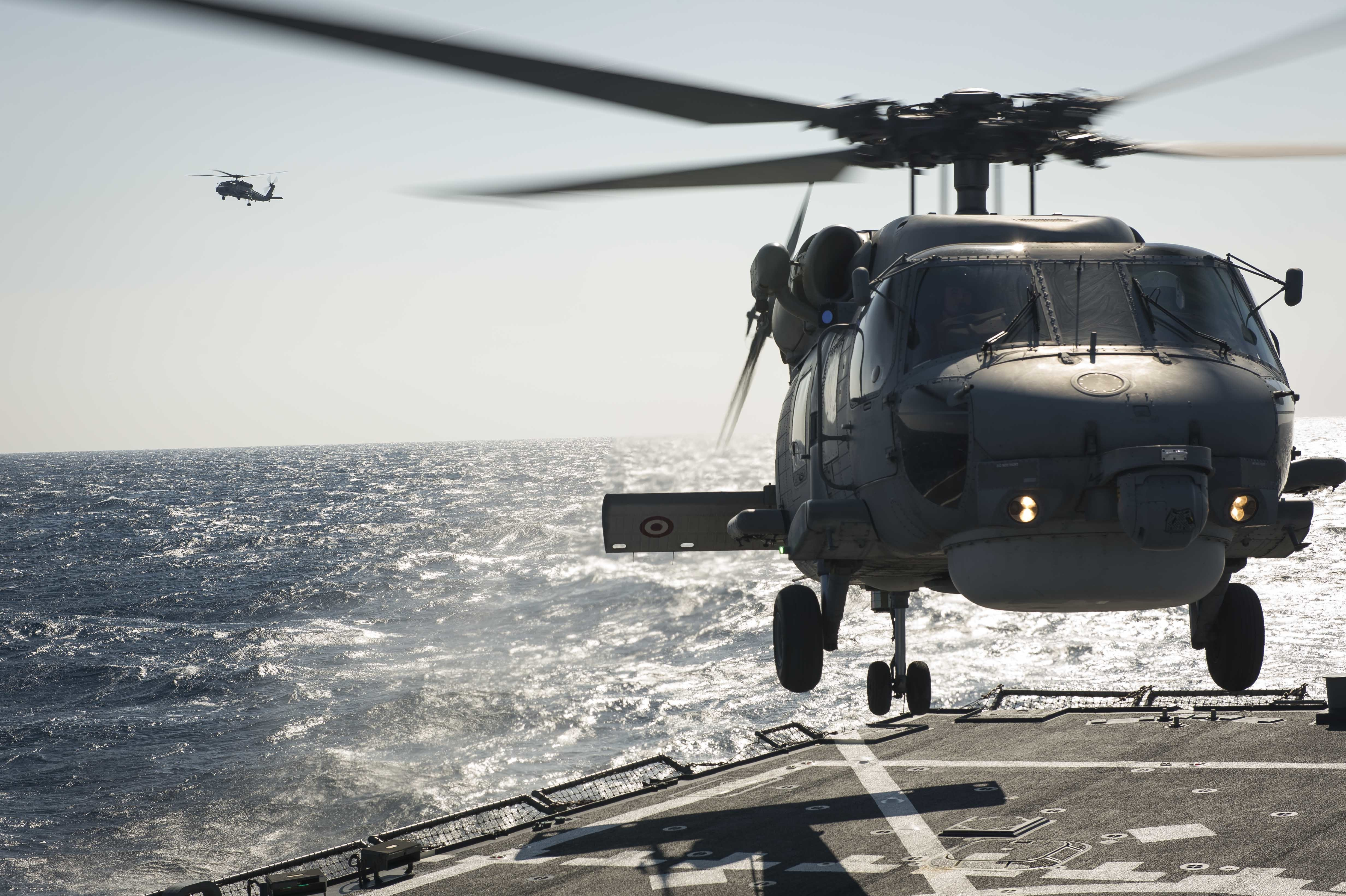 MEDITERRANEAN SEA (March 28, 2016) A Turkish Navy S-70B Seahawk lands aboard USS Porter (DDG 78). Porter, an Arleigh Burke-class guided-missile destroyer, forward-deployed to Rota, Spain, is conducting a routine patrol in the U.S. 6th Fleet area of operations in support of U.S. national security interests in Europe. (U.S. Navy Photo by Mass Communication Specialist 3rd Class Robert S. Price/Released)160328-N-FQ994-138 Join the conversation: navylive.dodlive.mil